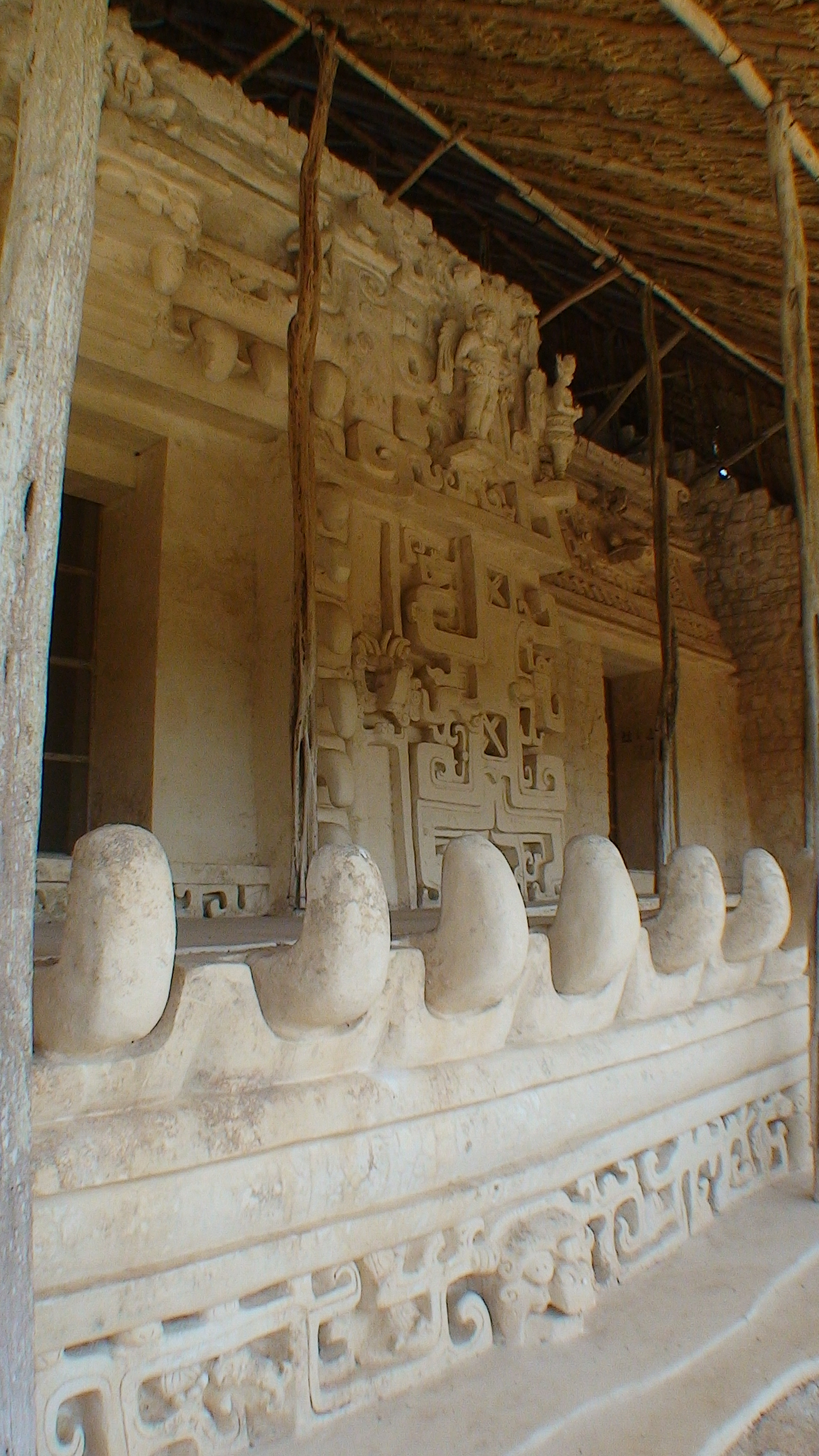 Ek Balam, Yucatan, Mexico: Stucco facade